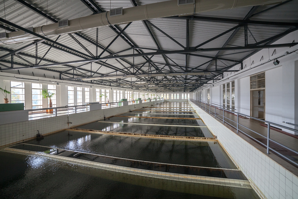 Úpravna vody v Podhradí u Vítkova - pískové filtry